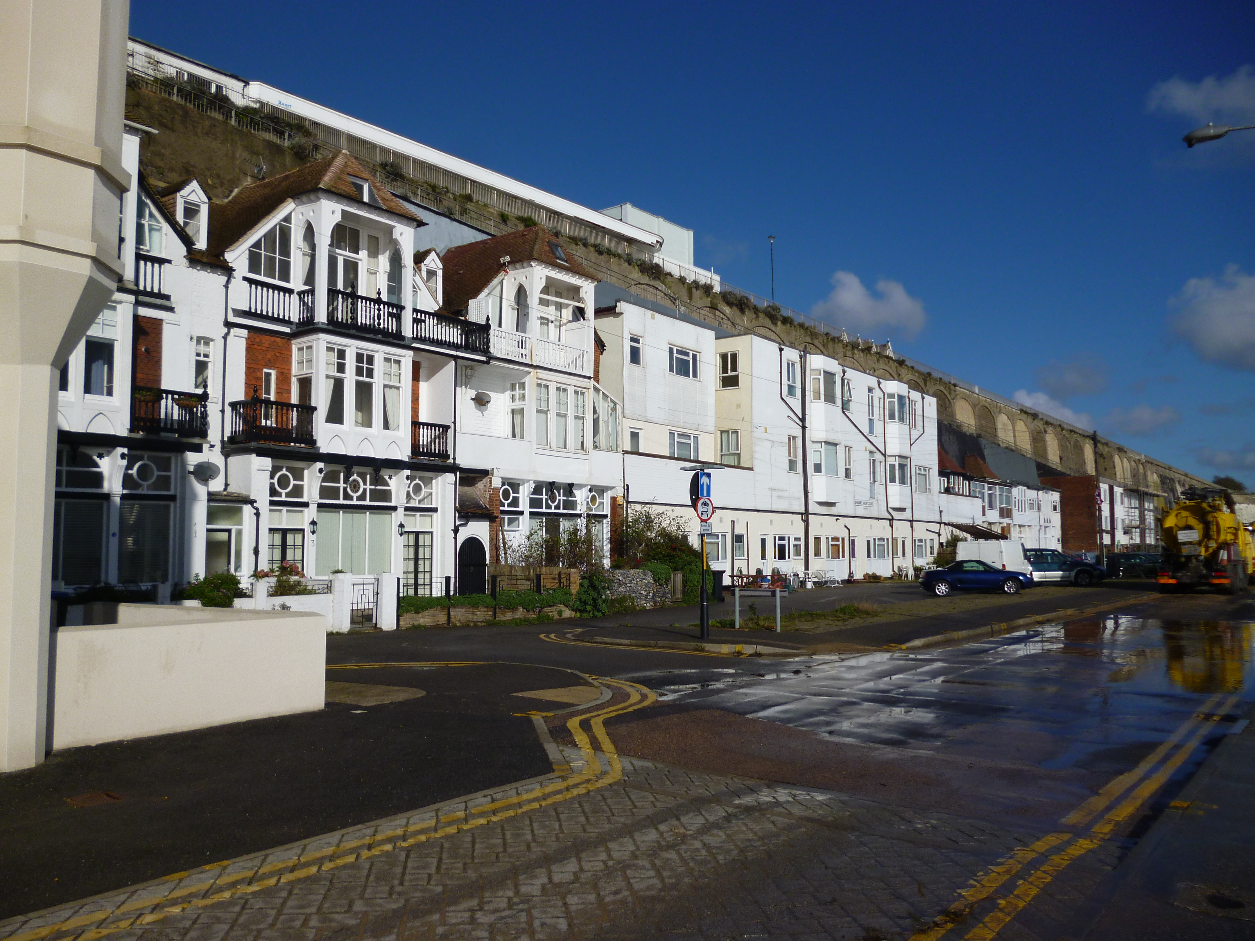 The Granville Marina, photographed by Benedict Kelly, 4th November 2013.